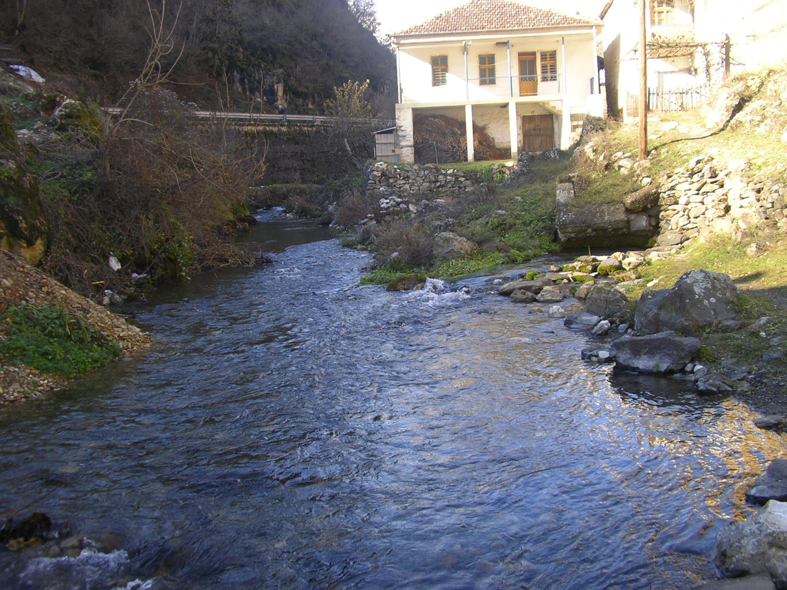 Izvori Crna Reka